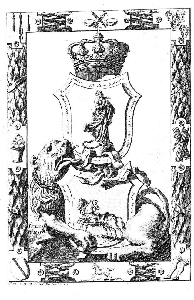 Escudo de la Real Maestranza de Caballería de Granada.